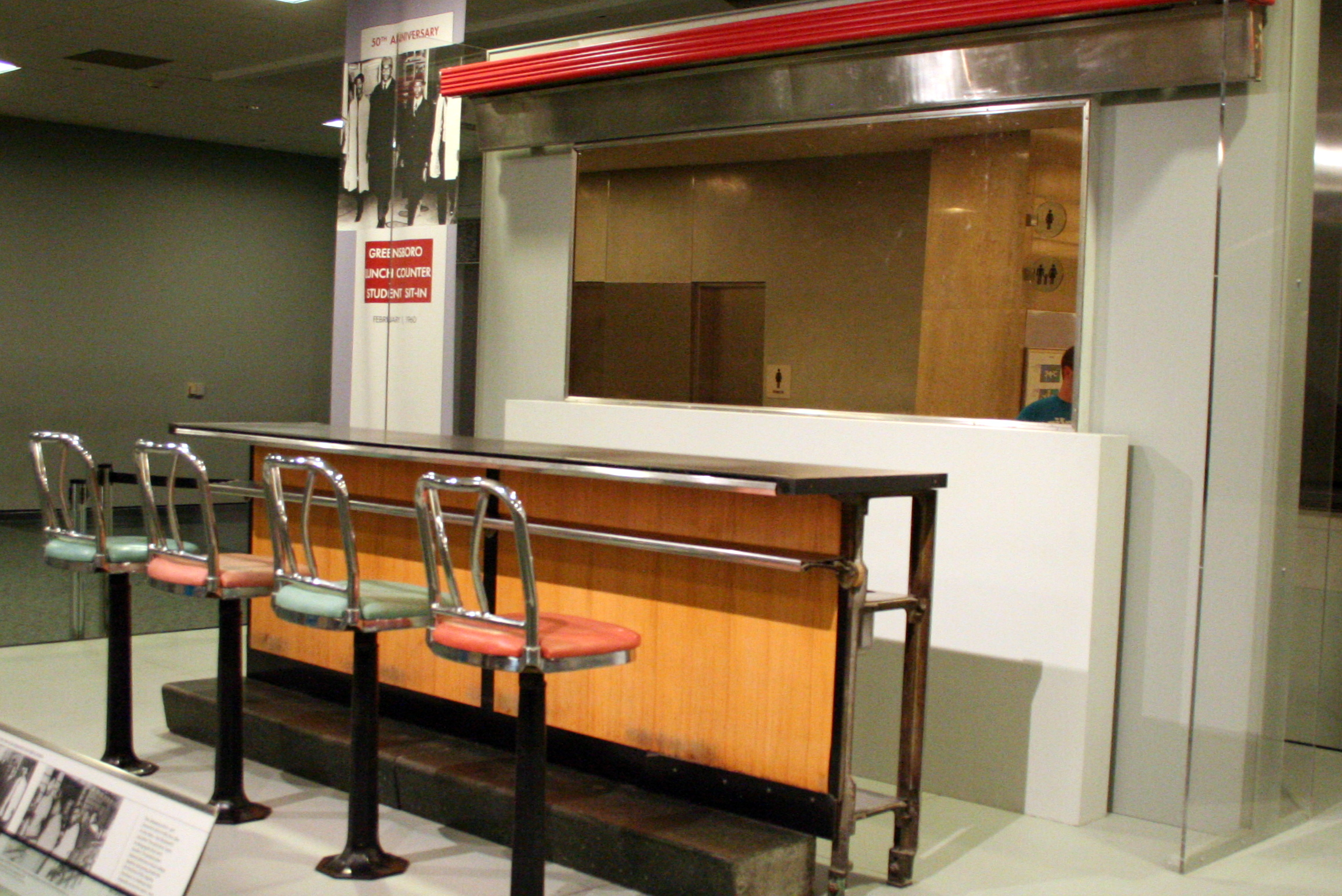 Counter segment where Greensboro students staged a civil rights sit-in protest on display in the National Museum of American History in Washington DC. “ GREENSBORO LUNCH COUNTER, 1960 From the site of an important civil rights protest Segregation in public places was still legal on February 1, 1960, when four African American college students deliberately sat down at this "whites only" lunch counter at an F. W. Woolworth store in Greensboro. When denied service and asked to leave, they remained in their seats. Over the next six months, hundreds of students and church and community members joined the protest. Their activism ultimately led to the desegregation of the lunch counter on July 25, 1960 "With their very bodies," civil rights leader James Farmer later said of the protestors "they obstructed the wheels of injustice." ”